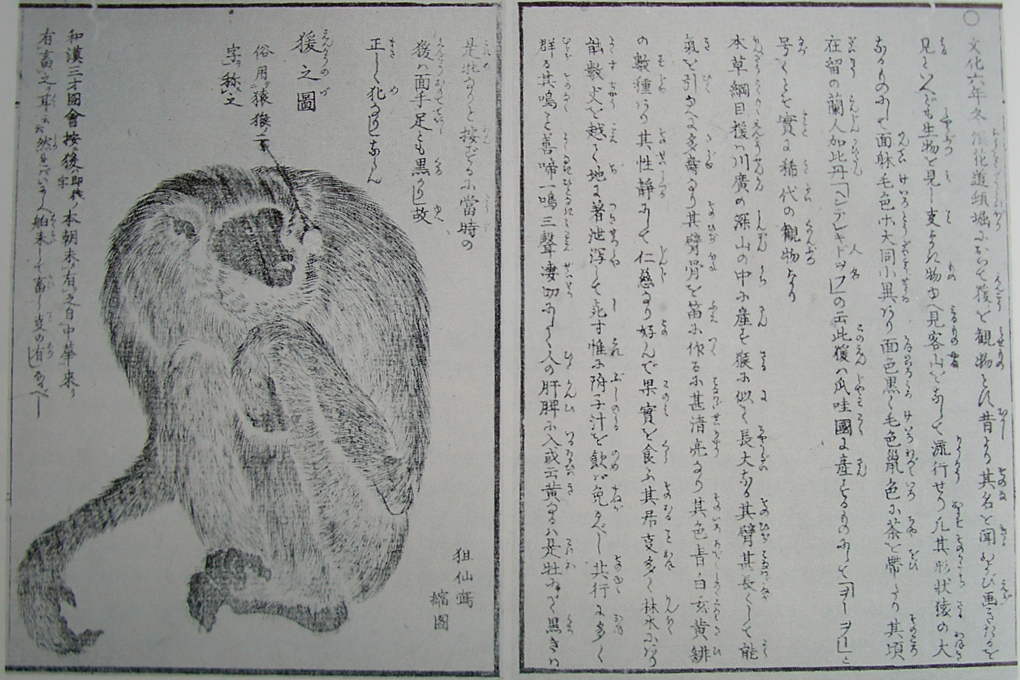 According to van Gulik's translation, this is the account of what may have been the first ever visit of a gibbon to Japan. Van Gulik translates Kenkadō's text as follows: "In the winter of the sixth year of the Bunko era (1809), a gibbon was shown in Osaka, in the Dōtombori ward (S.W. of Tennōji Park, today still the pleasure quarter of Osaka. v.G.). Although we have heard the word "gibbon" since olden times, and seen pictures of him, we never had seen a live specimen, and therefore a large crowd assembled to see this gibbon. Generally he resembled a large macaque, and figure and fur are very similar. The face is black, the fur grey with a touch of brown. The Hollander "Captain" Hendrik Doeff who was then staying here said that this gibbon occurs on the island of Java where it is called "wau-wau". Truly an extraordinary sight!" According to Gulik, "wau-wau" refers in Indonesia to the species Hylobates Moloch; it must have been brought to Japan on a Dutch ship.